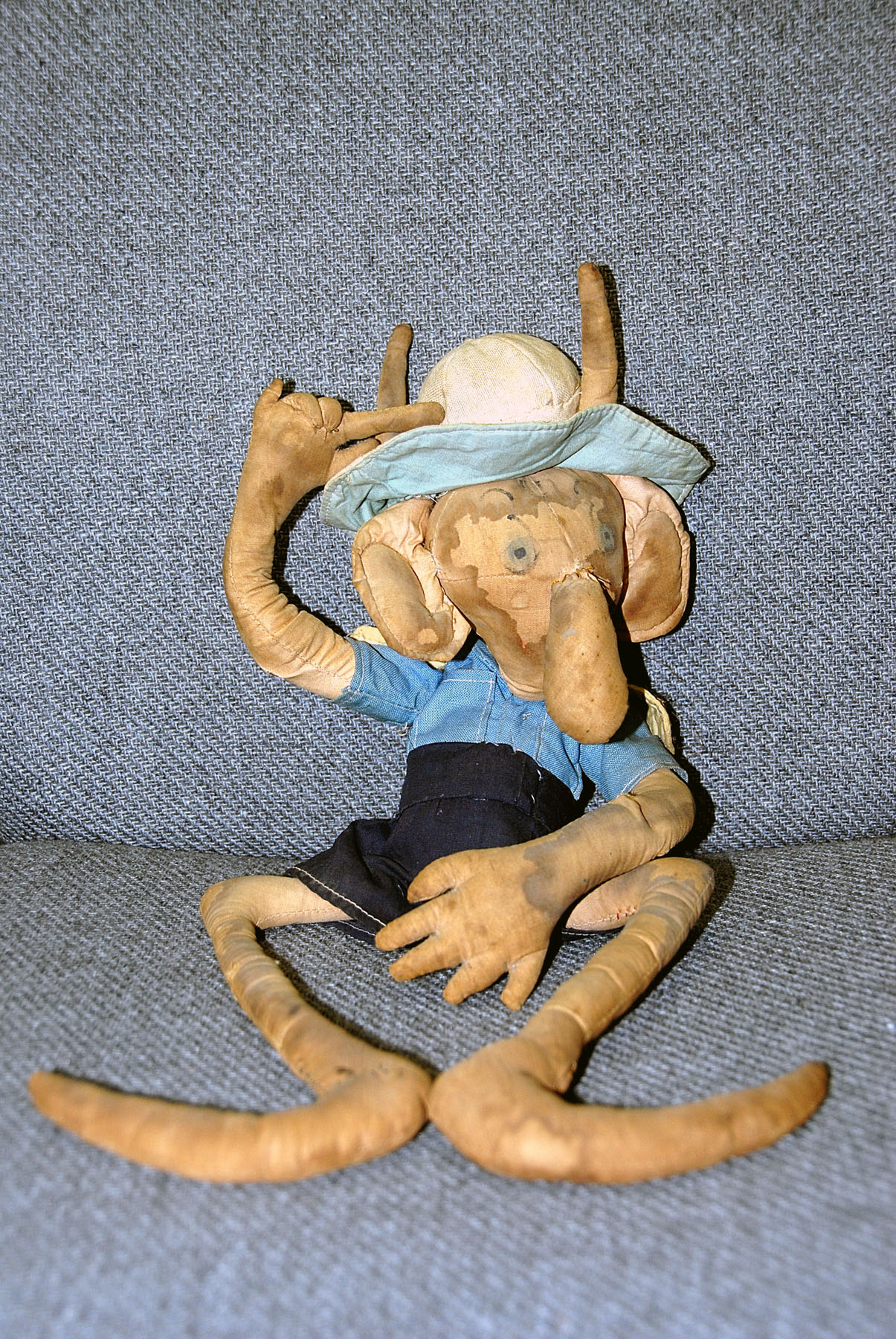 This good luck mascot -- a gremlin -- flew on all of the donor's B-17 missions over Germany from 1942-1945. The crew was part of the 482nd Bomb Group (Heavy). The mascot was made locally by a woman in the village near Alconbury Air Base, England. Although this gremlin was considered a good luck charm by the B-17 crew, the concept of gremlins became popular during World War II as creatures who were responsible for accidents that occurred during flight. Donated by SSgt. Theodore Carter.